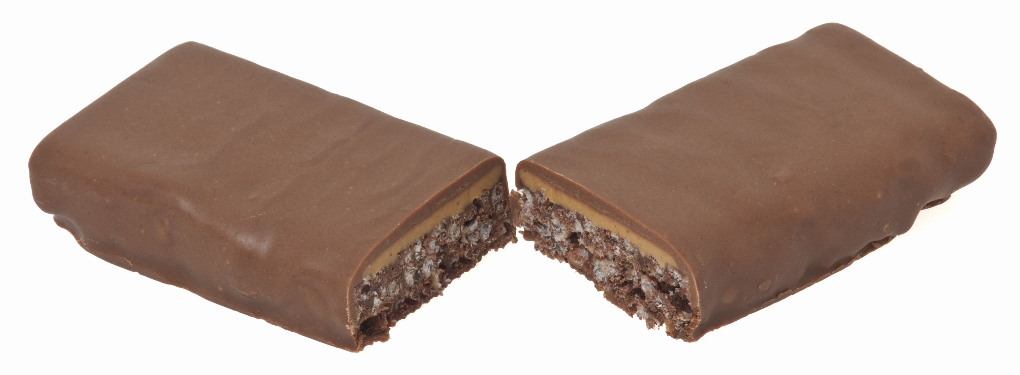 The Thingamajig, a candy bar made by Hershey. It can be seen as a variant of the Whatchamacallit candy bar.